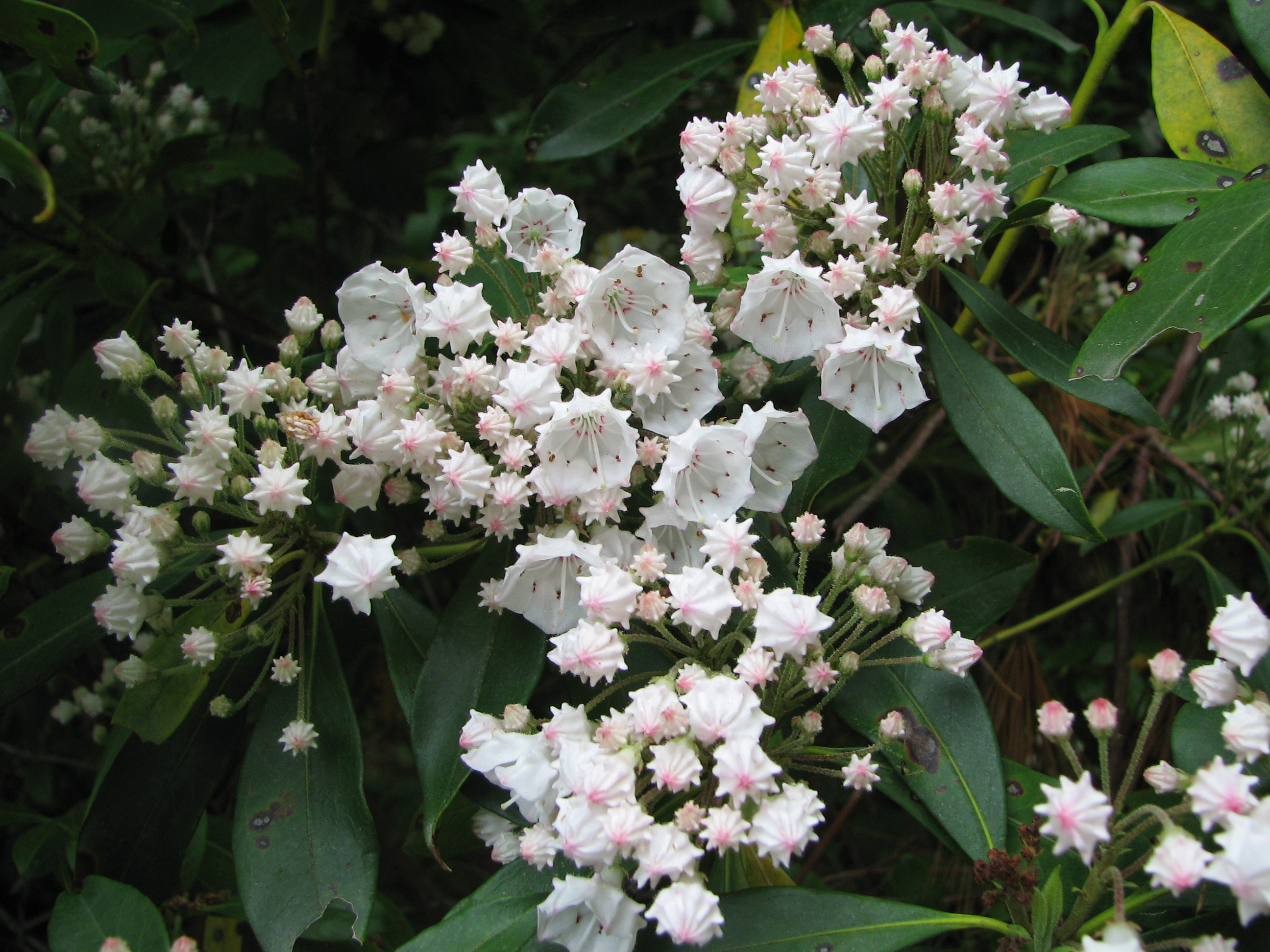 A wild Mountain Laurel, showing the rather geometrically pleasing buds.